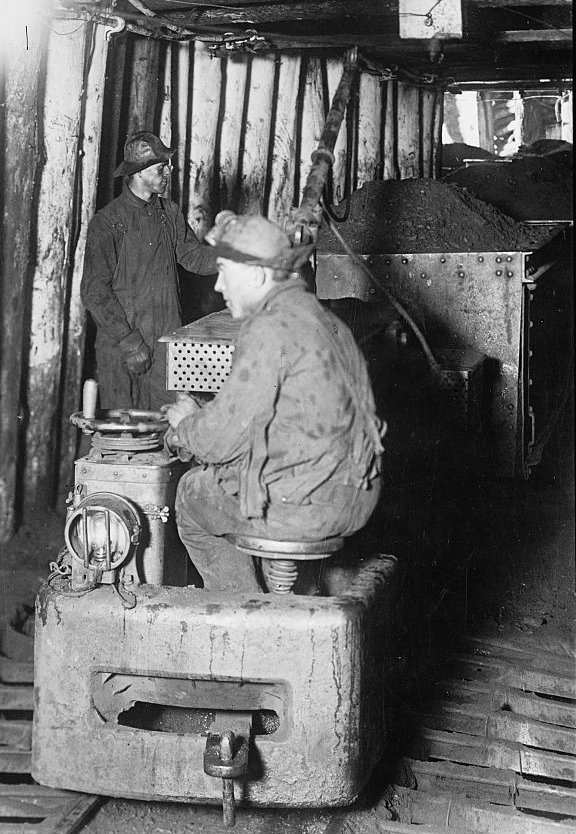 Elec. Locomotive, Oliver Iron Mining Co., Minn.